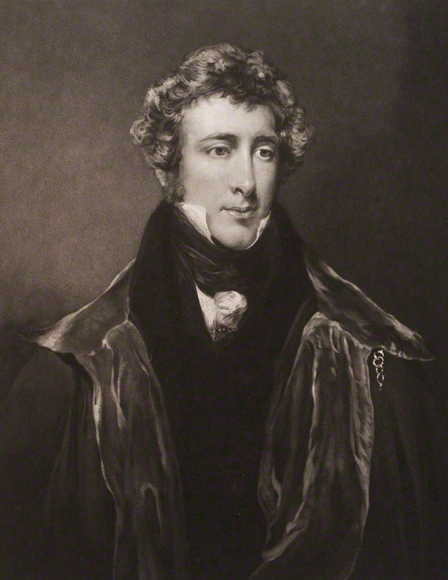 George Agar-Ellis, 1st Baron Dover (1797-1833)